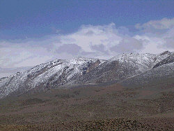 Mount Mgoun from Tarkeddit